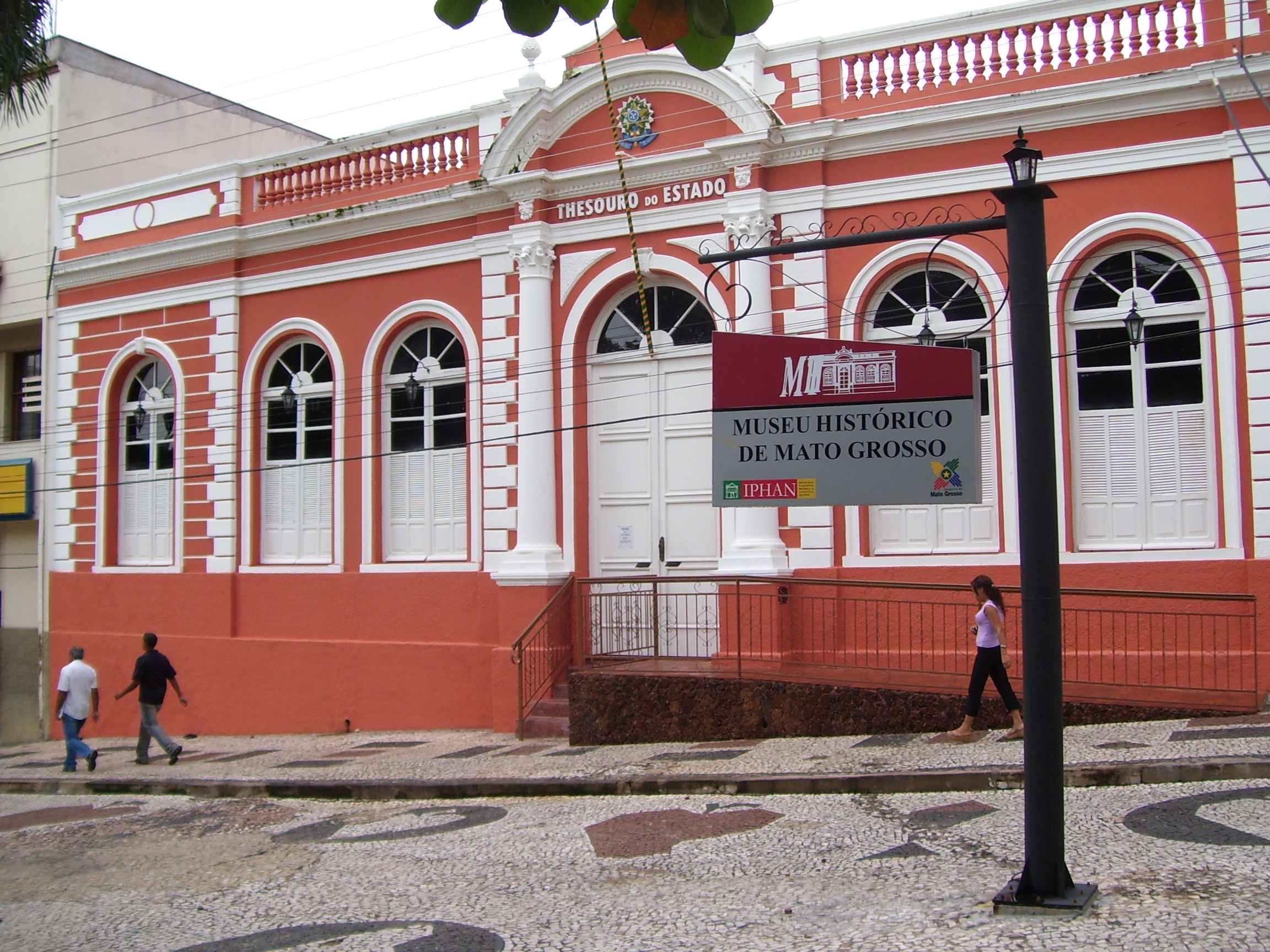 State Treasury, nowadays hosts the Historical Museum of Mato Grosso, Cuiabá, Mato Grosso, Brazil.